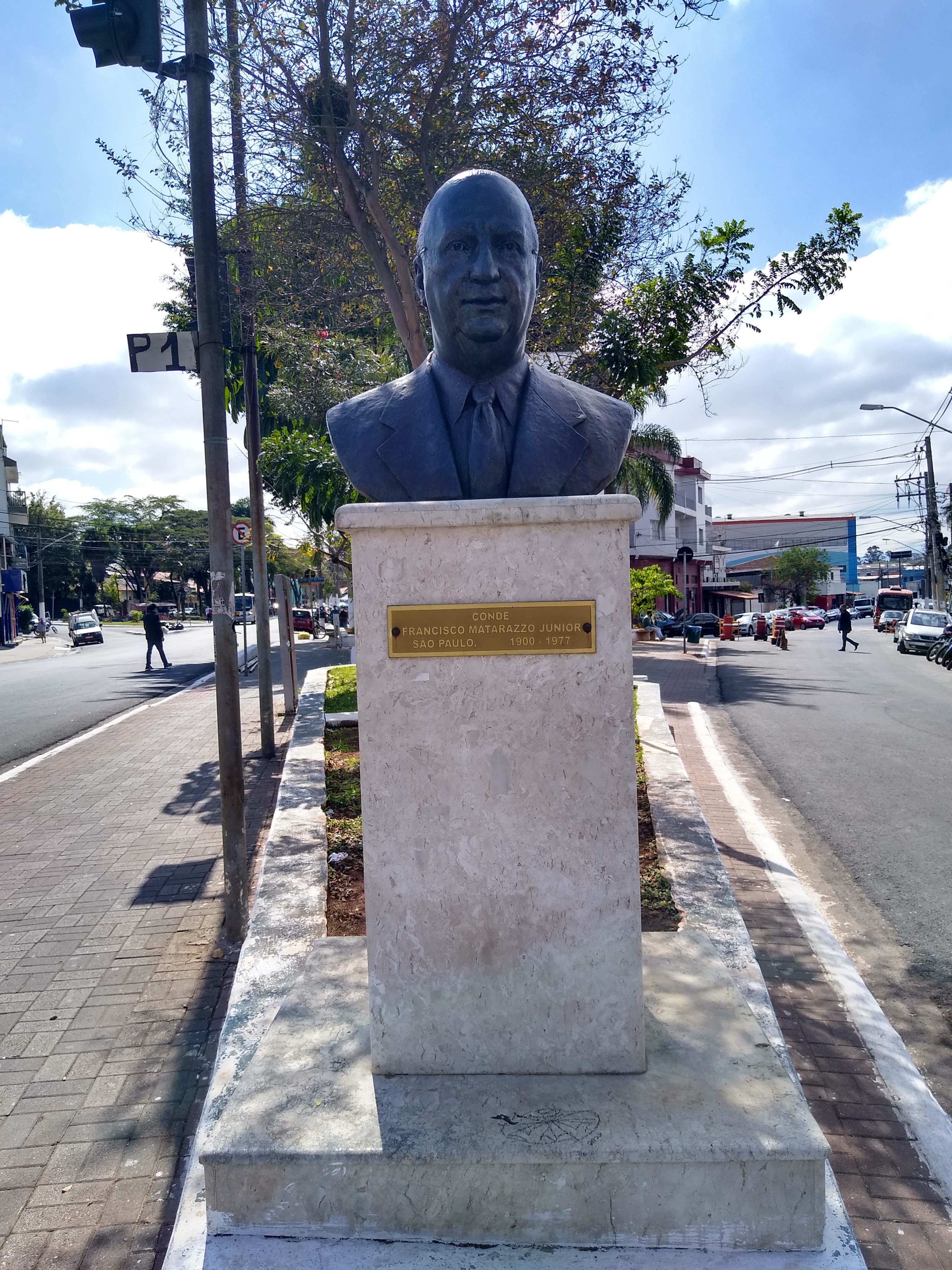 Estátua do conde Francisco Matarazzo localizada no centro do bairro de Ermelino Matarazzo